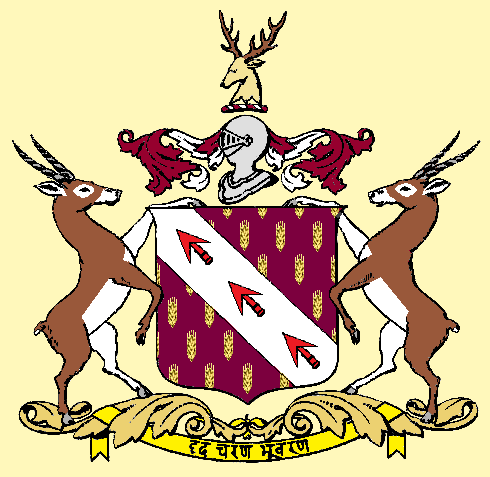 Samthar State Coat of Arms. This work is in the public domain in India because its term of copyright has expired. The Indian Copyright Act applies in India, to works first published in India. According to The Indian Copyright Act, 1957 (Chapter V Section 25), Anonymous works, photographs, cinematographic works, sound recordings, government works, and works of corporate authorship or of international organizations enter the public domain 60 years after the date on which they were first published, counted from the beginning of the following calendar year (ie. as of 2020, works published prior to 1 January 1960 are considered public domain). Posthumous works (other than those above) enter the public domain after 60 years from publication date. Any other kind of work enters the public domain 60 years after the author's death. Text of laws, judicial opinions, and other government reports are free from copyright. Photographs created before 1960 are in the public domain 50 years after creation, as per the Copyright Act 1911. This file may not be in the public domain outside India. The creator and year of publication are essential information and must be provided. See Wikipedia:Public domain and Wikipedia:Copyrights for more details. This image shows a flag, a coat of arms, a seal or some other official insignia. The use of such symbols is restricted in many countries. These restrictions are independent of the copyright status.